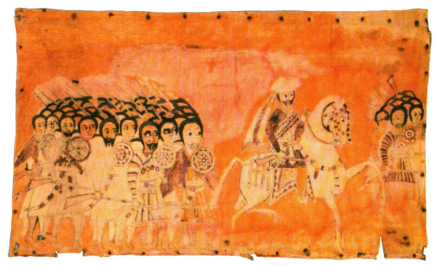 Painting most likely depicting Ras Wube of Tigray with his retinue, c. 1880. The artist is unknown. Published in "Mensch und Geschichte in Äthiopiens Volksmalerei".